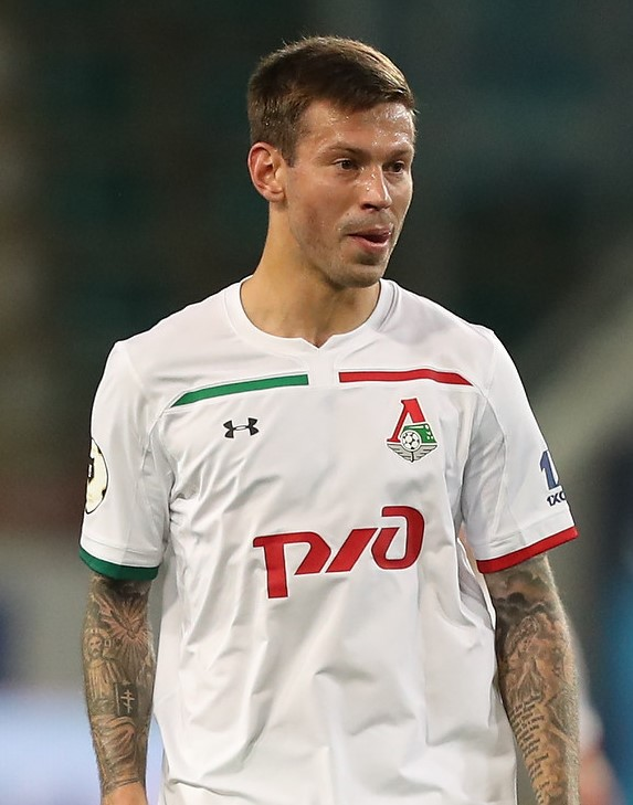 Fyodor Smolov